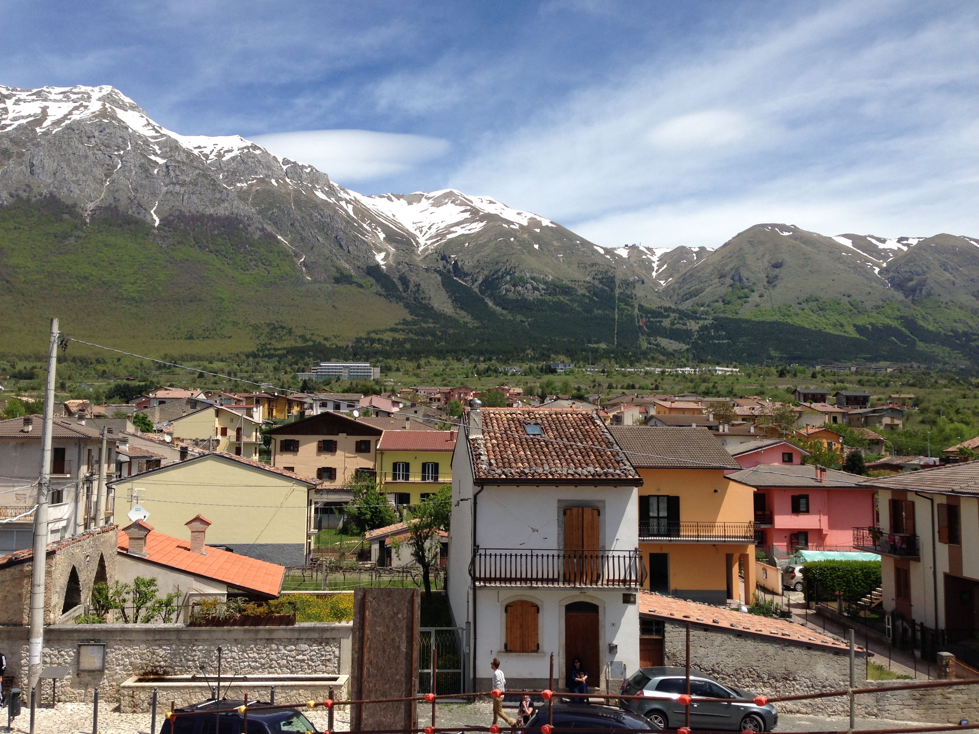 Assergi, Italy, looking out from the north gate to the old town